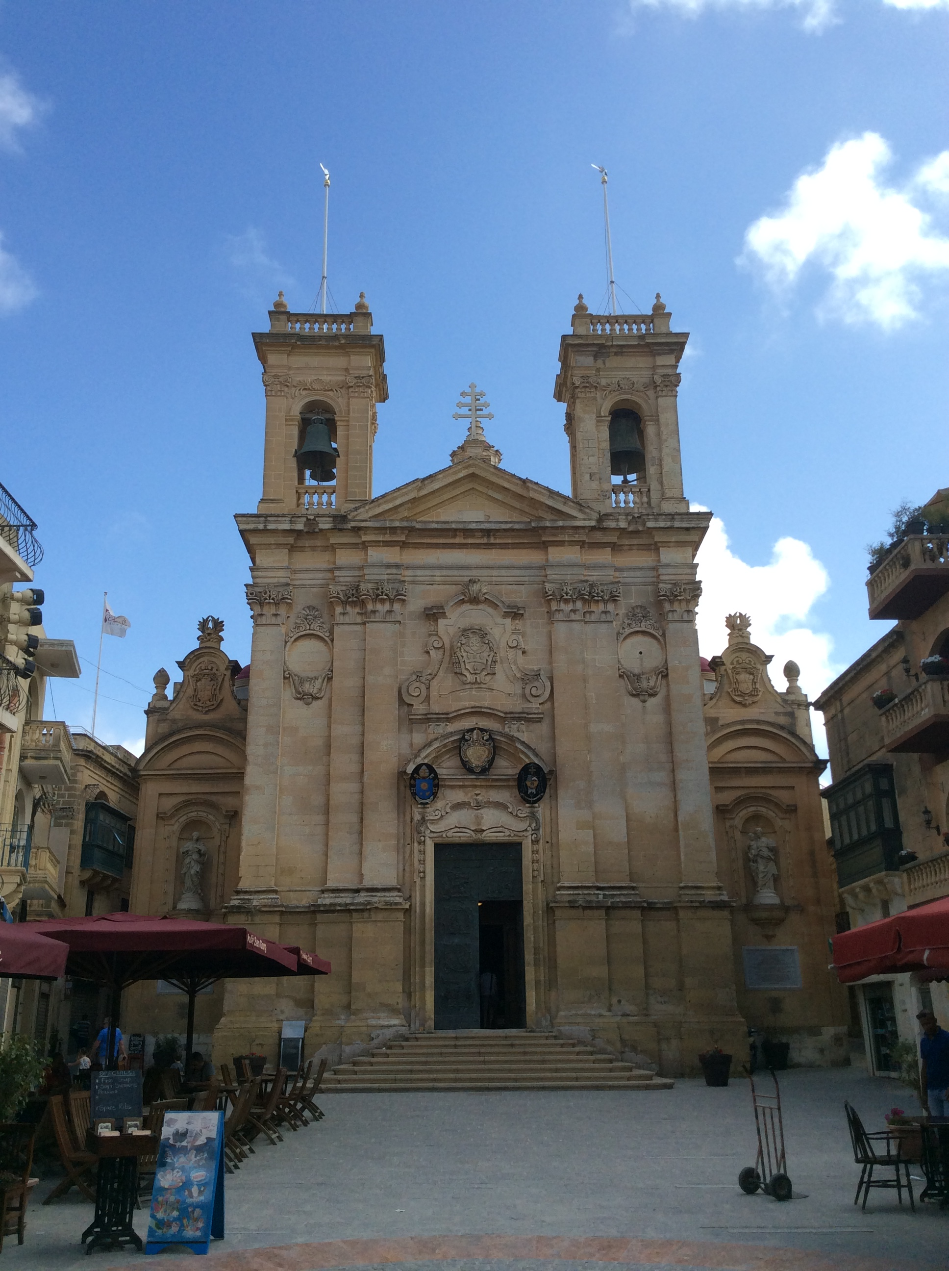 St. George's Basilica, Malta